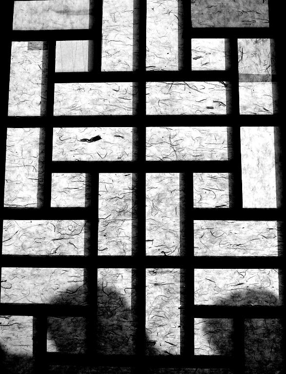 A papered window of a hanok, Photo taken in South Korea